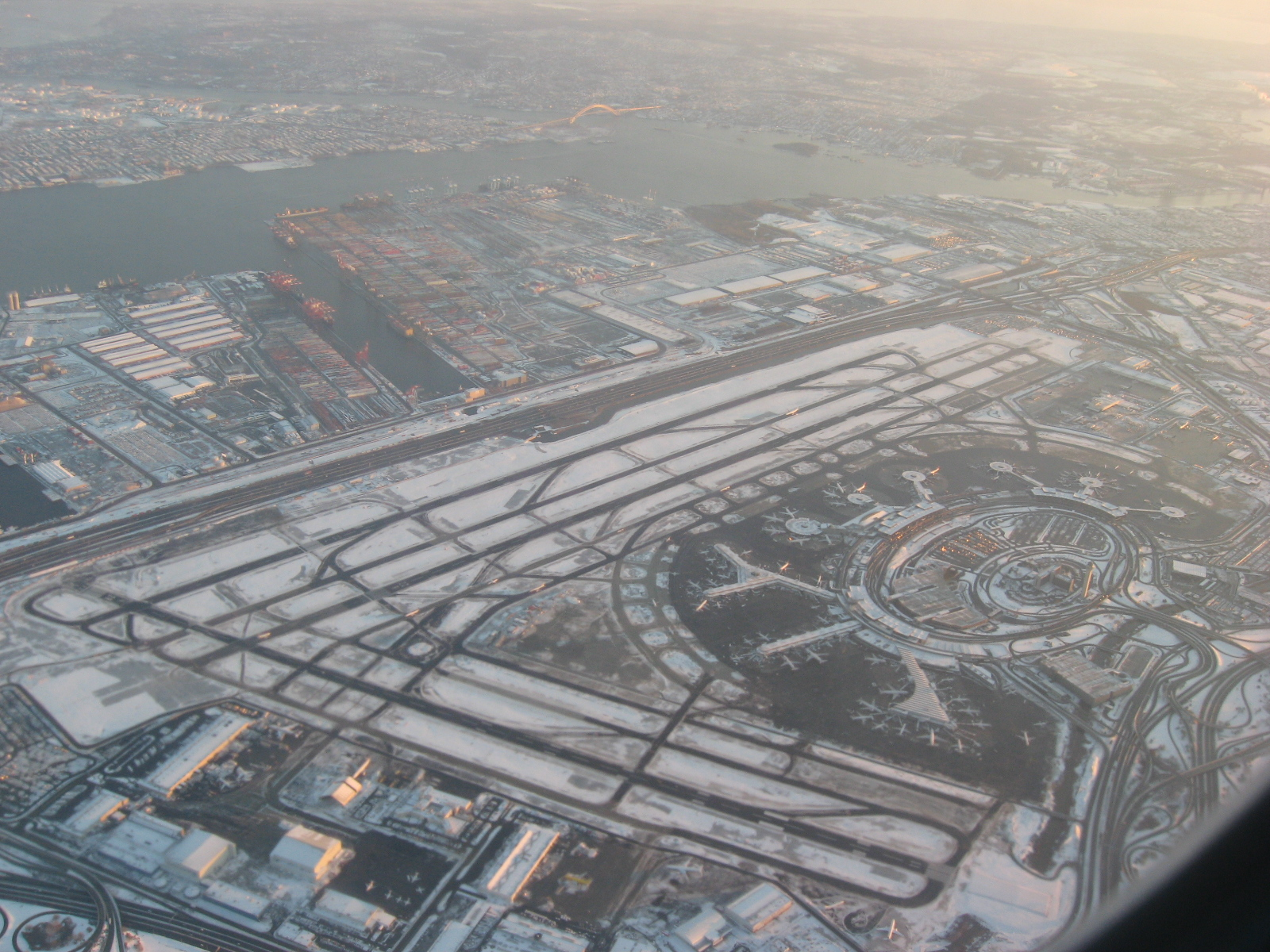 Newark Liberty International Airport, taken from Continental Flight 99 on a Boeing 777-200ER.